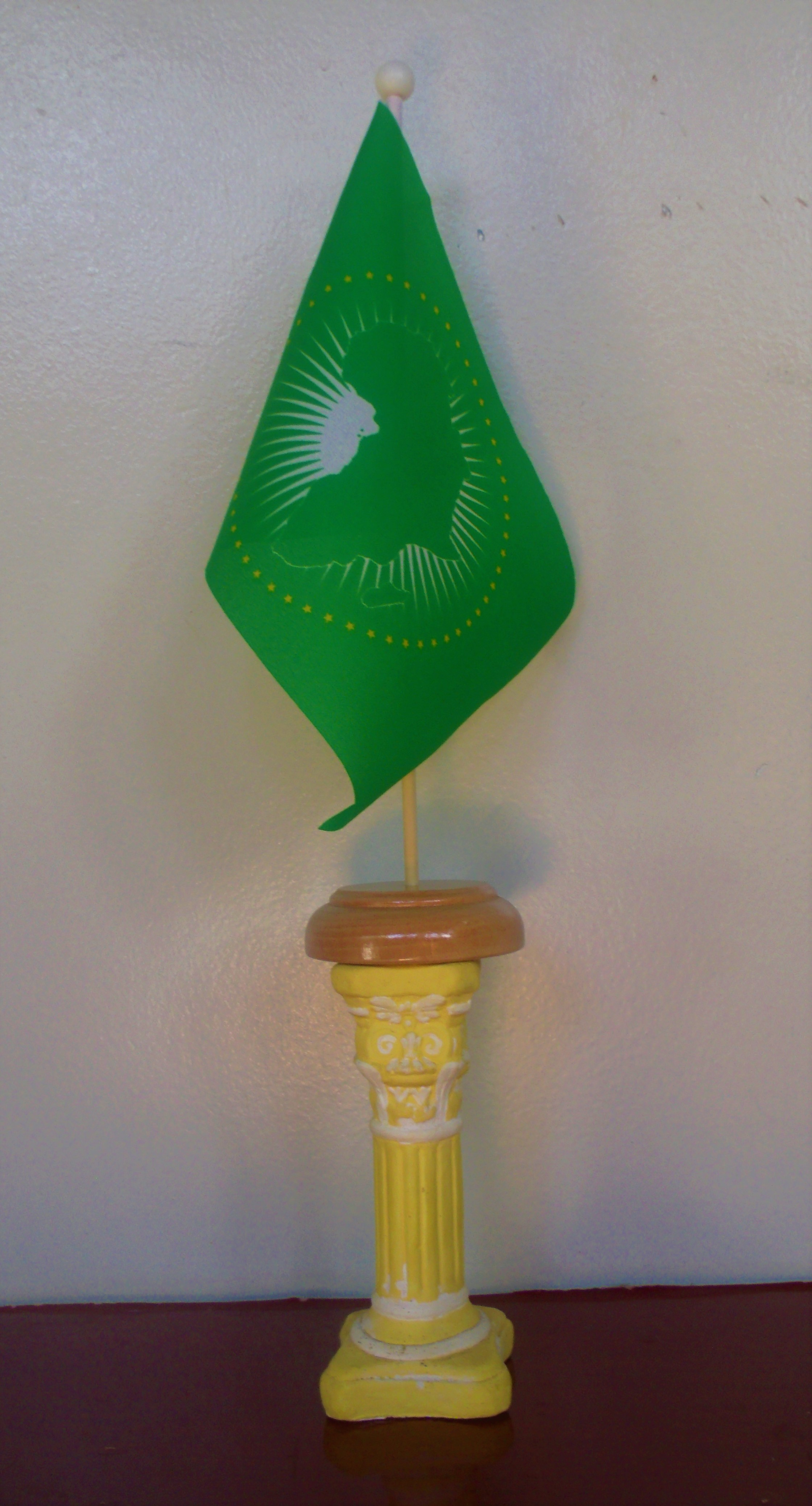 Flags of the African Union (table flag)